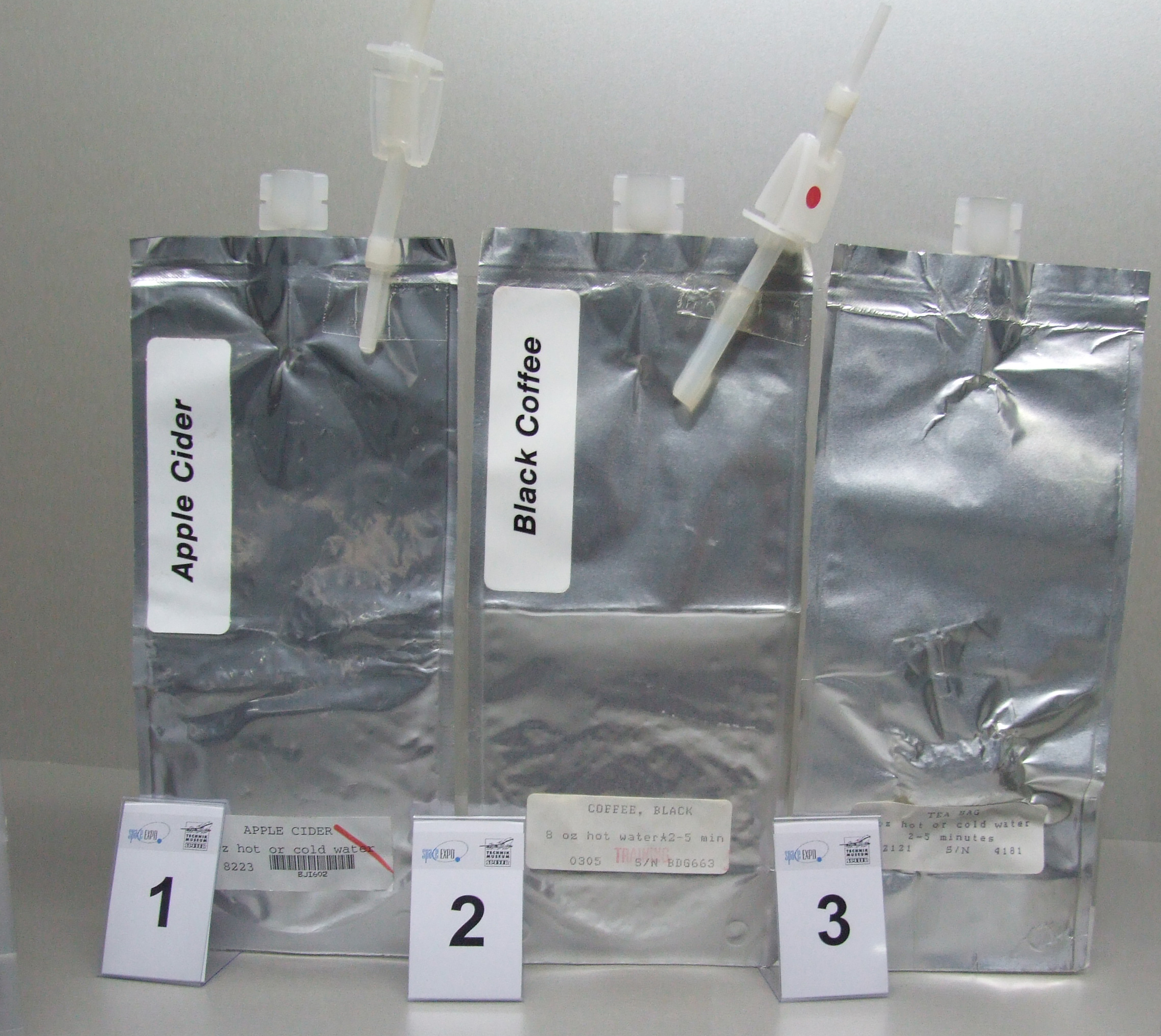 American space food: drinks apple juice, coffee, tea; Technik Museum Speyer